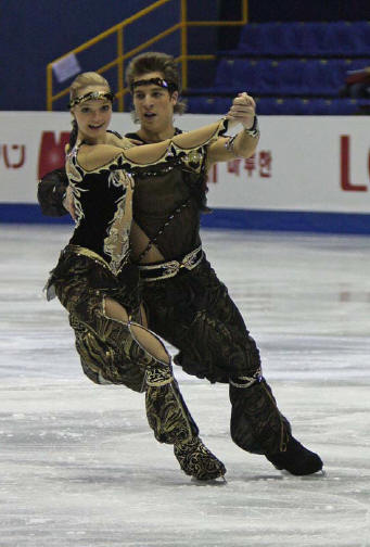 Ekaterina PUSHKASH Dmitri KISELEV (RUS) Grand Prix Final 2008 – Juniors Free Dance